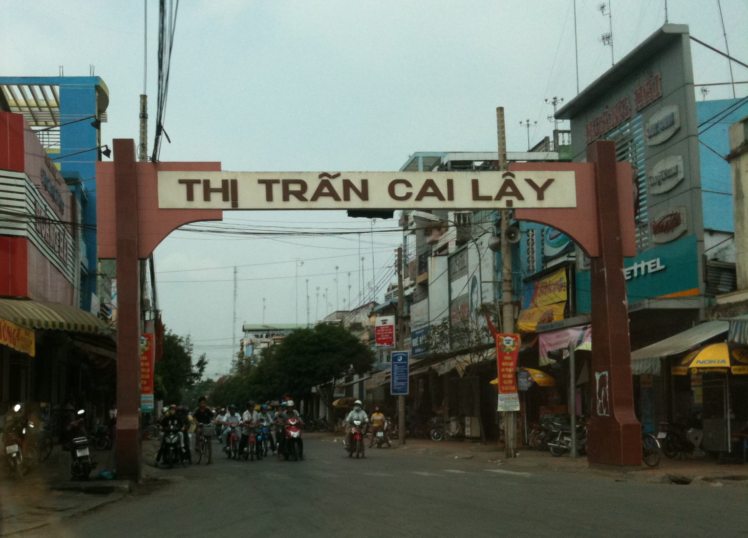 Sign at the entrance of Thi Tran Cai Lay, Khiem Ich, Tien Giang Province.